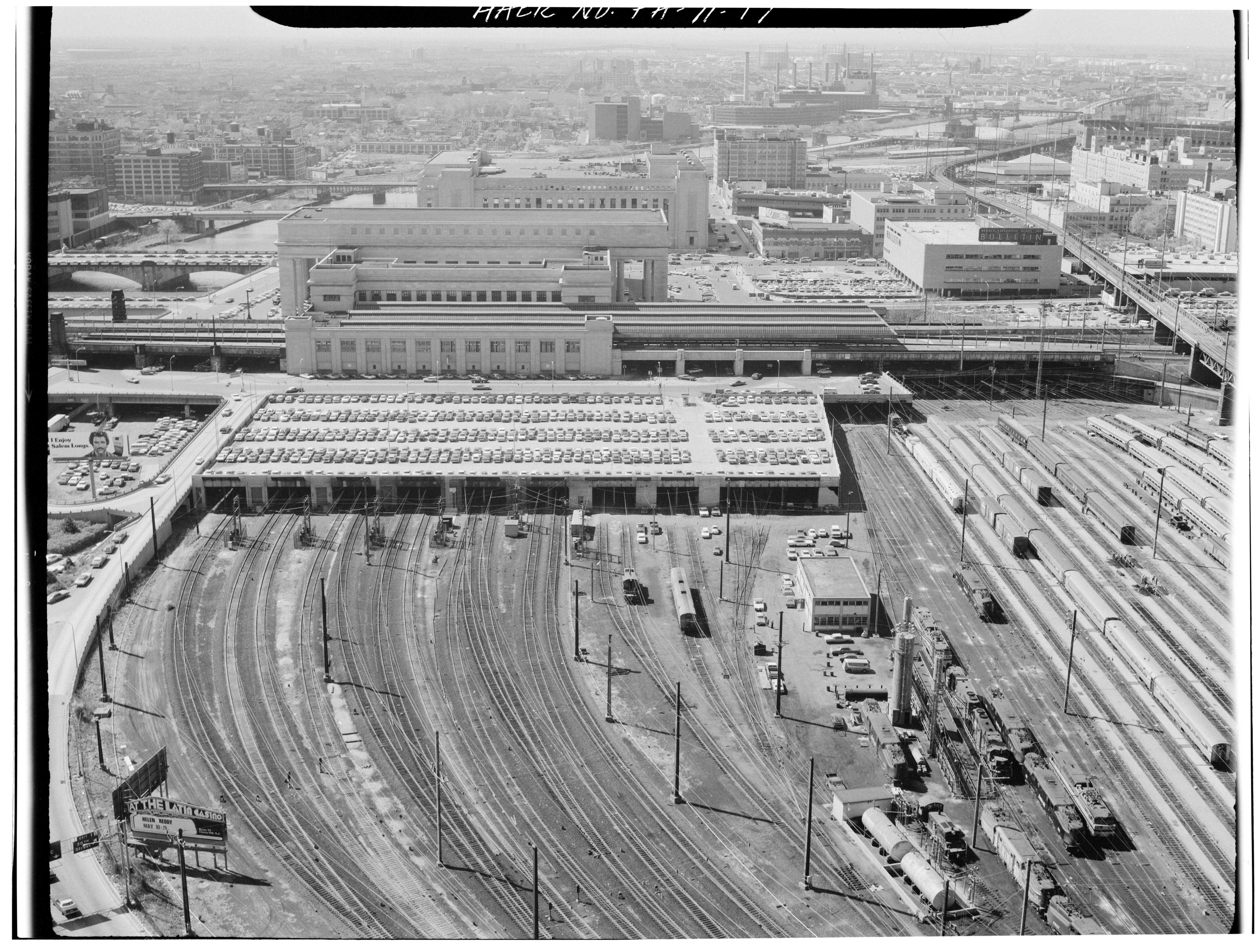 View of 30th Street Station, Philadelphia, looking from the north.The two track levels are perpendicular to each other; the road level is between them. The northern part of the lower platform level is covered by that parking deck.Since the photo has been taken in the late 1970s, the site's recent developments are not to be seen here. Most notable the Cira Centre, which has been erected in 2004–05 on the site of the right (and smaller) lot of the parking deck.